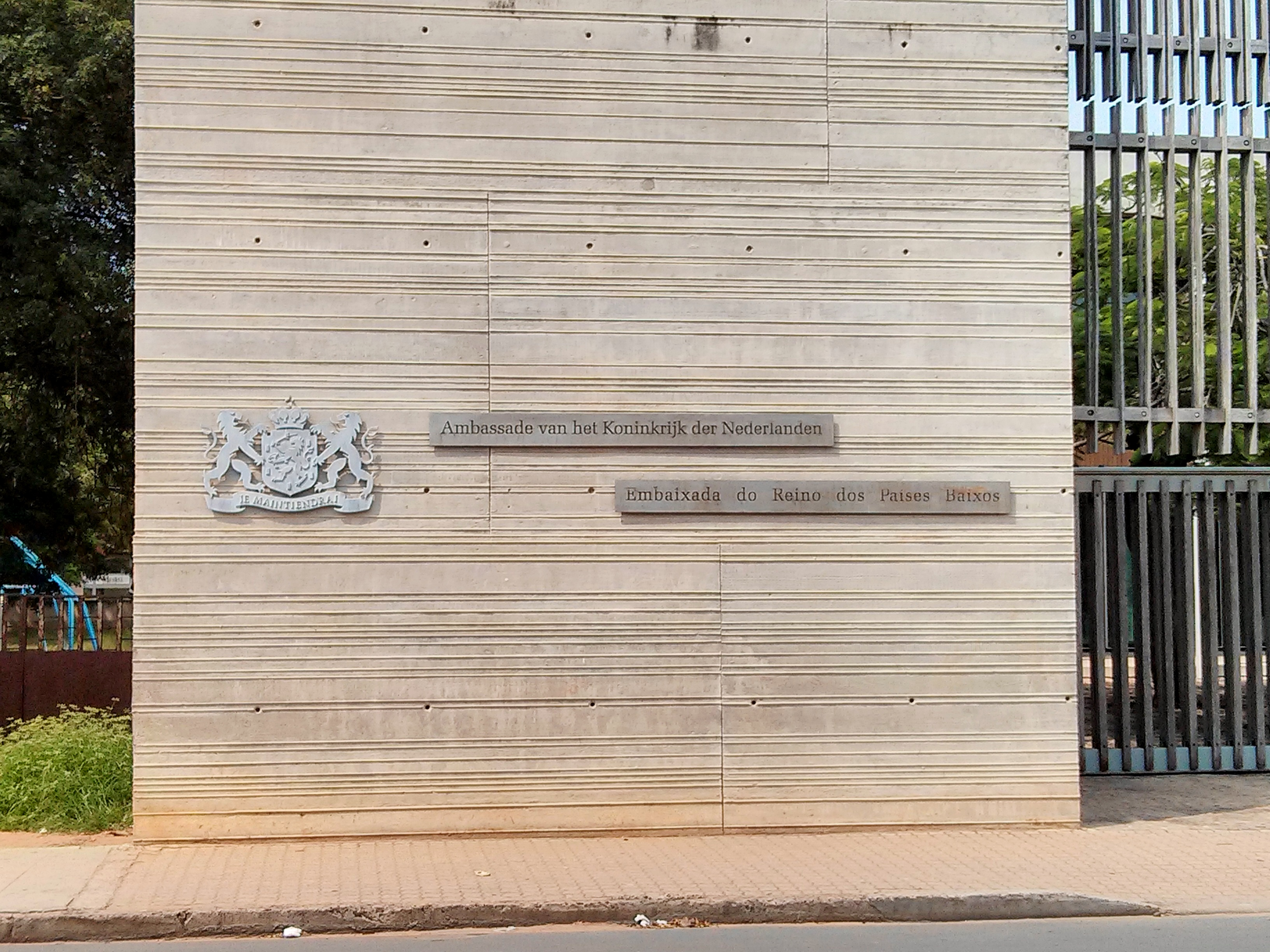 Embassy of the Netherlands in Maputo, Mozambique